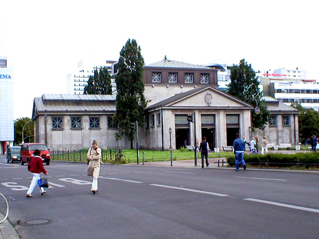 U-Bahn Berlin - U-Bahnhof Wittenbergplatz (U1, U2 & U3), entrance by Alfred Grenander